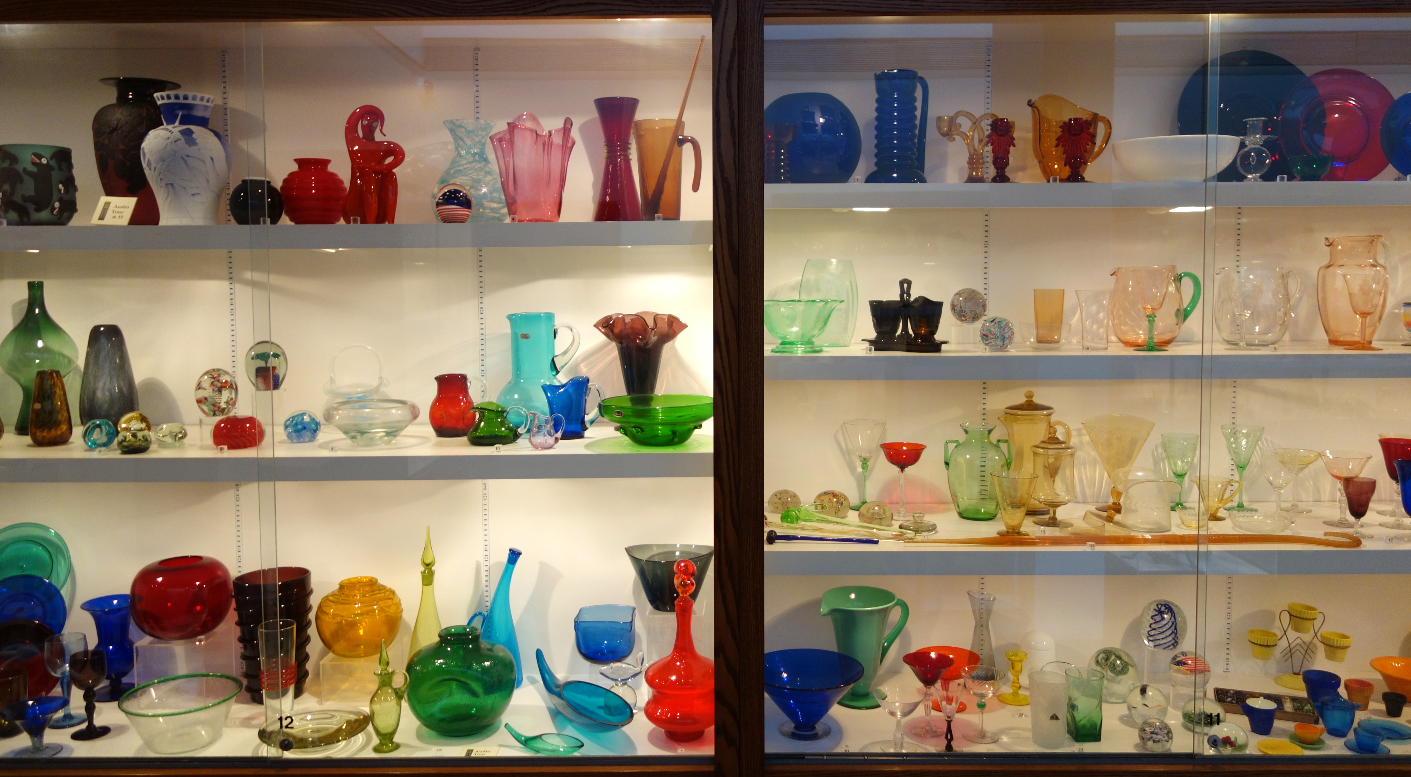 Exhibit in the Huntington Museum of Art, Huntington, West Virginia, USA. This artwork is in the public domain because the artist died more than 70 years ago.